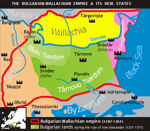 The Second Bulgarian Empire/Bulgarian-Wallachian Empire (1187-1261) and its heir states (1331-1371)